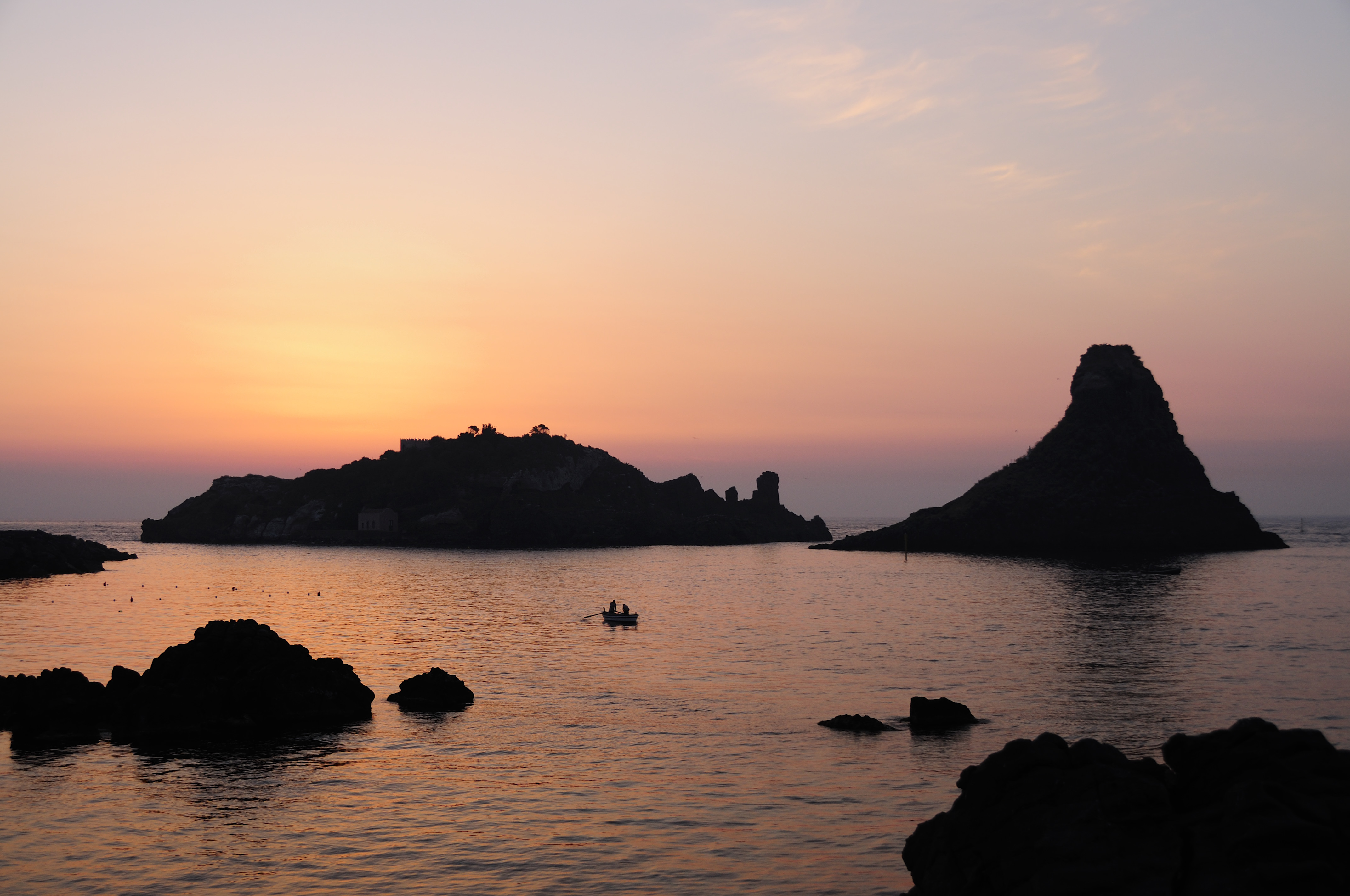 Sunrise over the Islands of the Cyclops, Acitrezza, Sicily, Italy